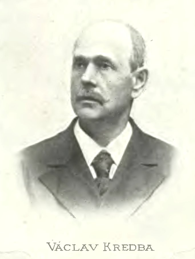 Portrait of Václav Kredba (1834-1913), Czech teacher and journalist.